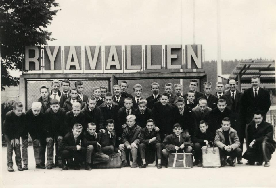 Youth team of IF Elfsborg in early 60s, before a away game, taking a picture in front of Ryavallen.The image qualifies as a photographic picture (fotografisk bild) since there is nothing original about the photo and the fact that anyone could have taken it. Therefore since this photographic picture was taken in 1961-62, thus before 1969, it is in the Swedish public domain according to the Swedish transitional regulations of 1994.